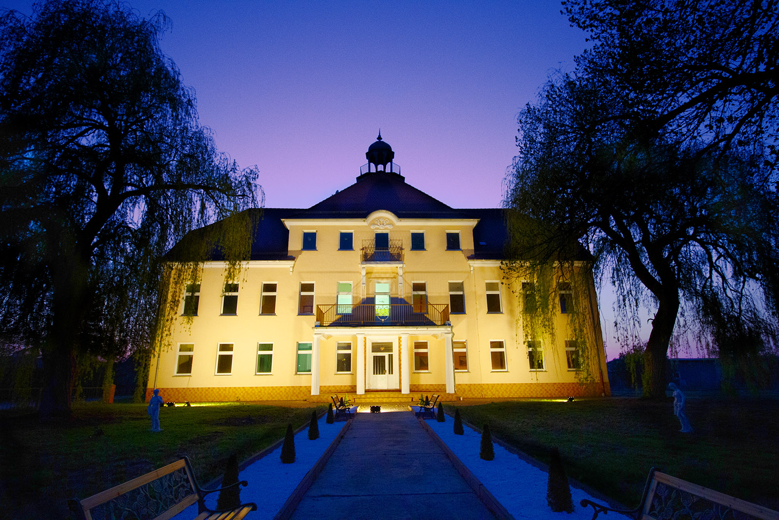 Aufnahme von März 2019